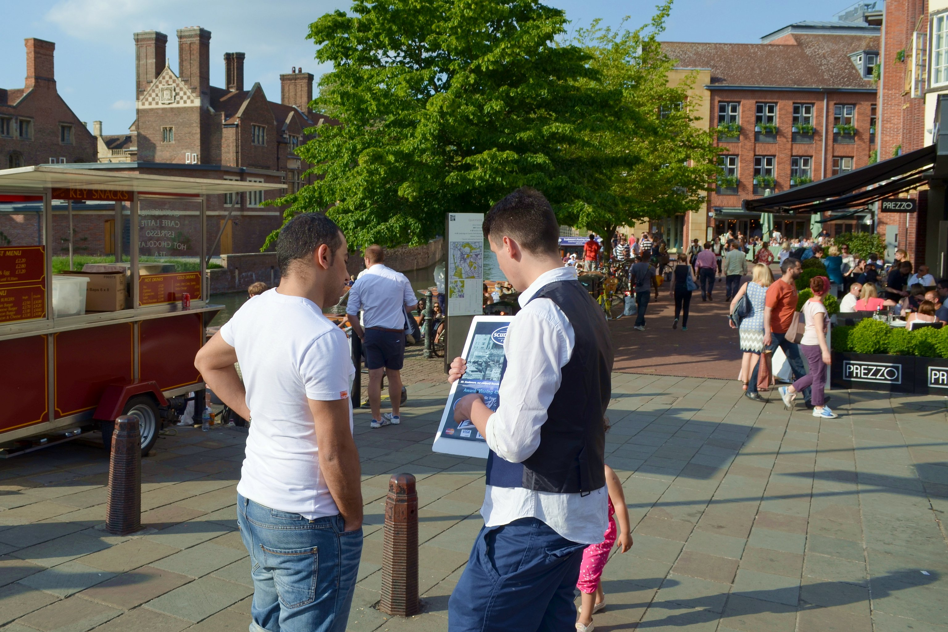 Quayside by Magdalene Bridge in Cambridge, England.